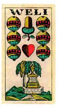 Weli in Salzburger Blatt 1866